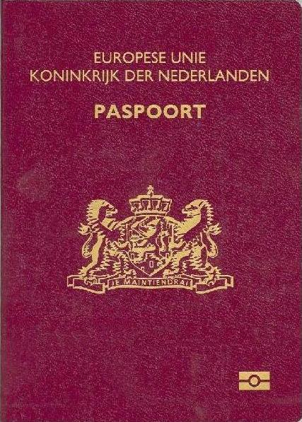 Dutch. Netherlands. Dutch passport (2006 European Union model).